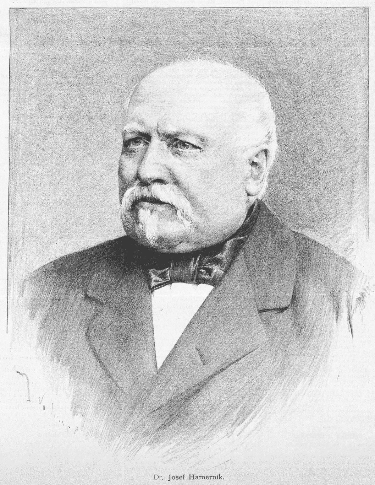 Portrait of Josef Hamerník (1810 - 1887), Czech doctor of medicine.